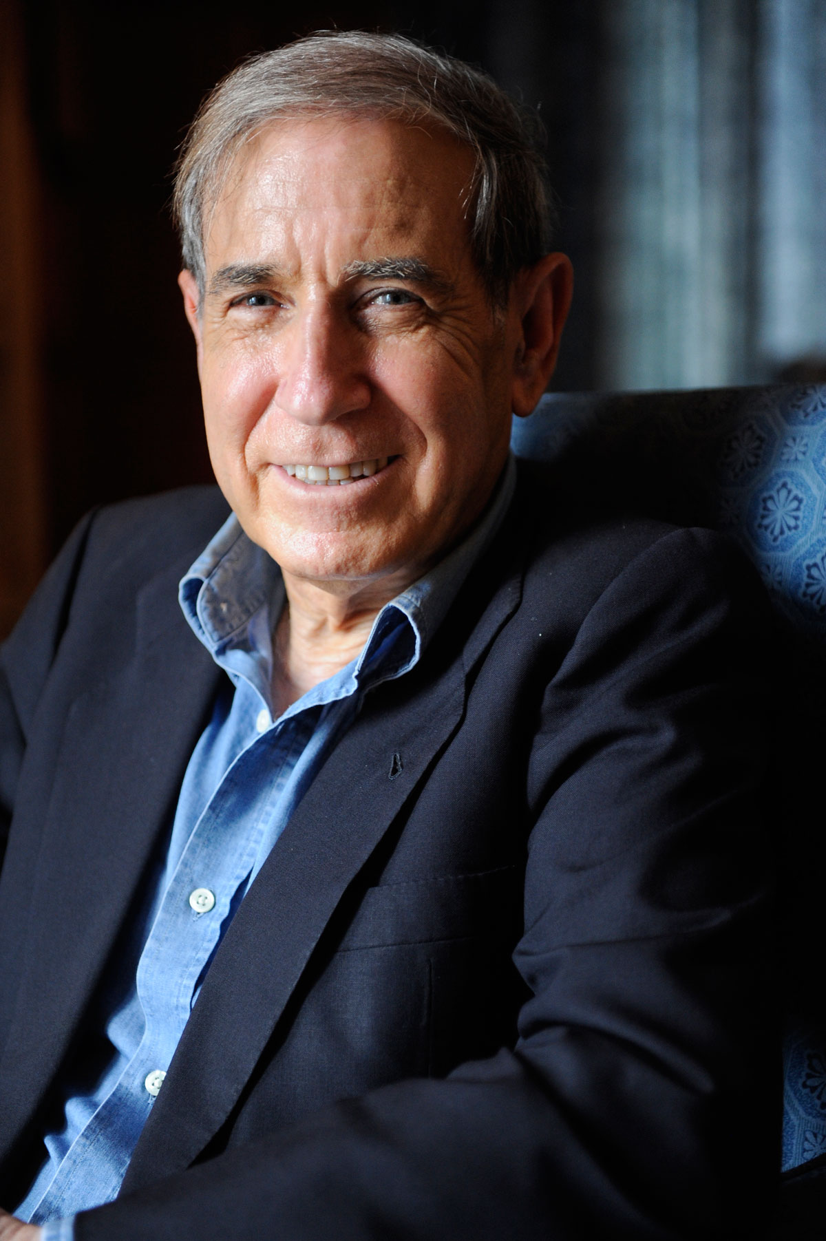 Shlomo Ben-Ami profile picture